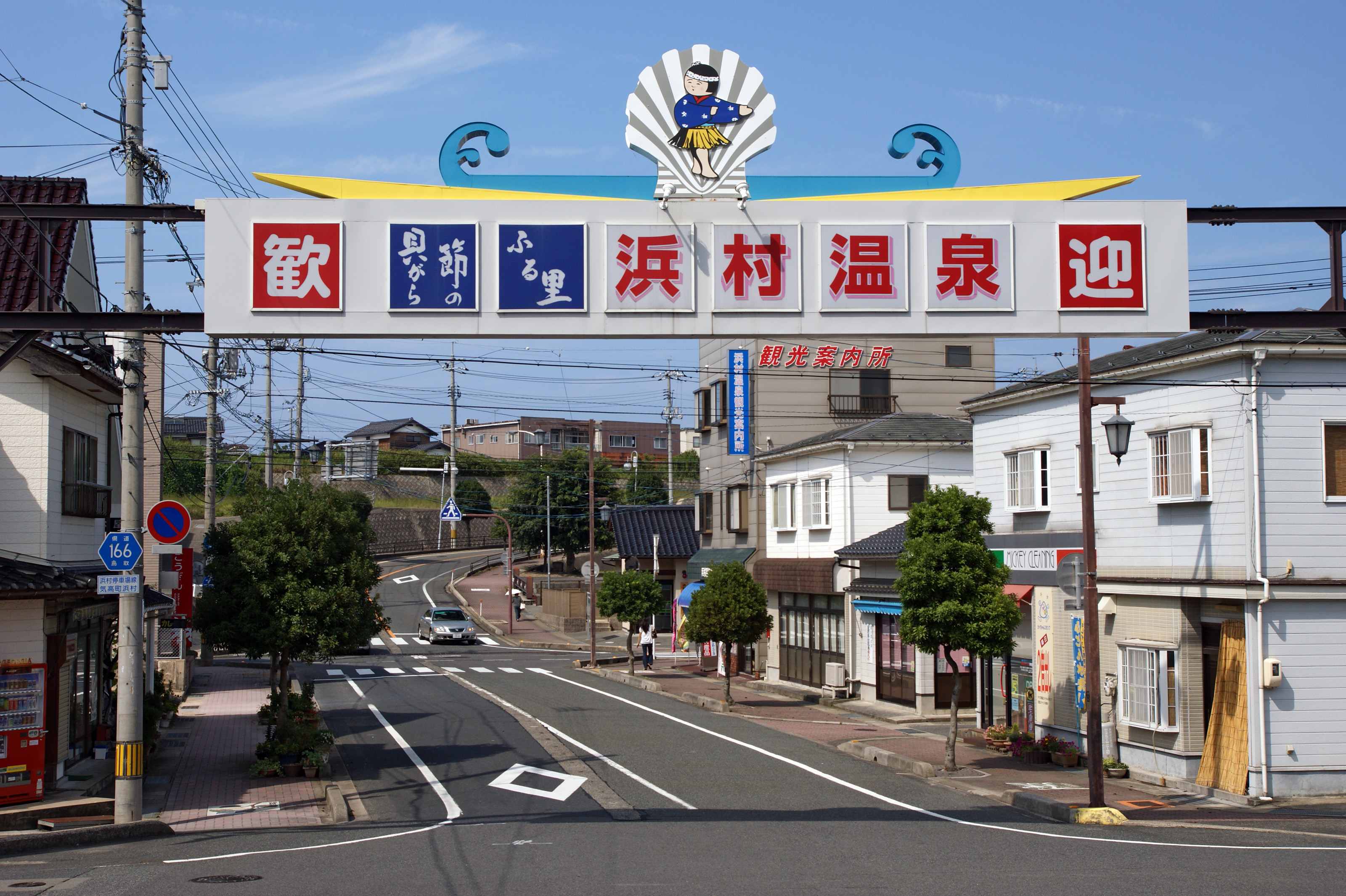 Hamamura Onsen, Tottori, Tottori prefecture, Japan